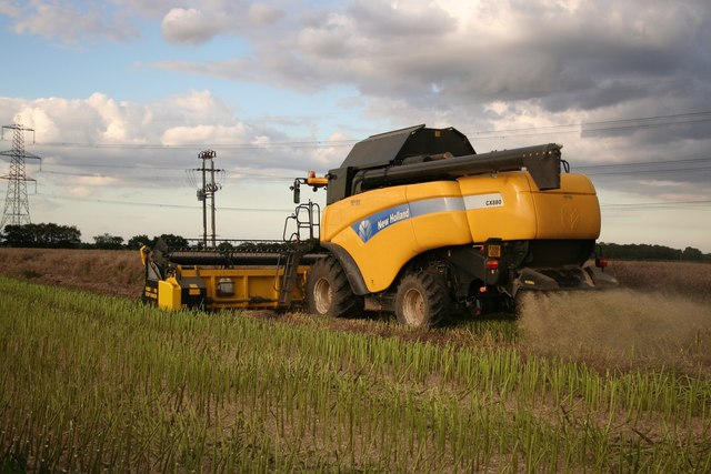 A giant New Holland CX880 combine at Manor Farm